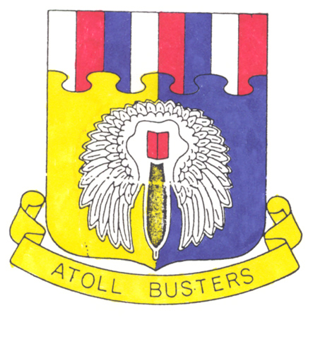 Unofficial 30th Bombardment Group emblem. Used in Pacific Theater during World War II